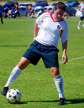 Katarina Jukic playing for her state club East Fremantle in the West Australian Smarter than Smoking Women's League